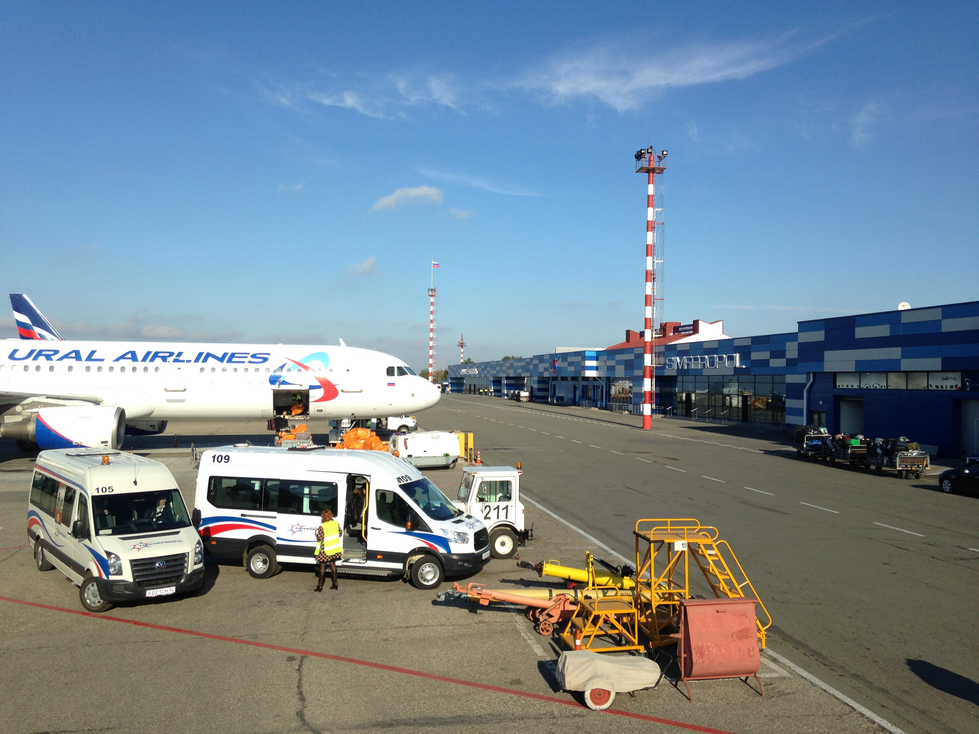 Ural Airlines aircraft in Simferopol International Airport. December 2015